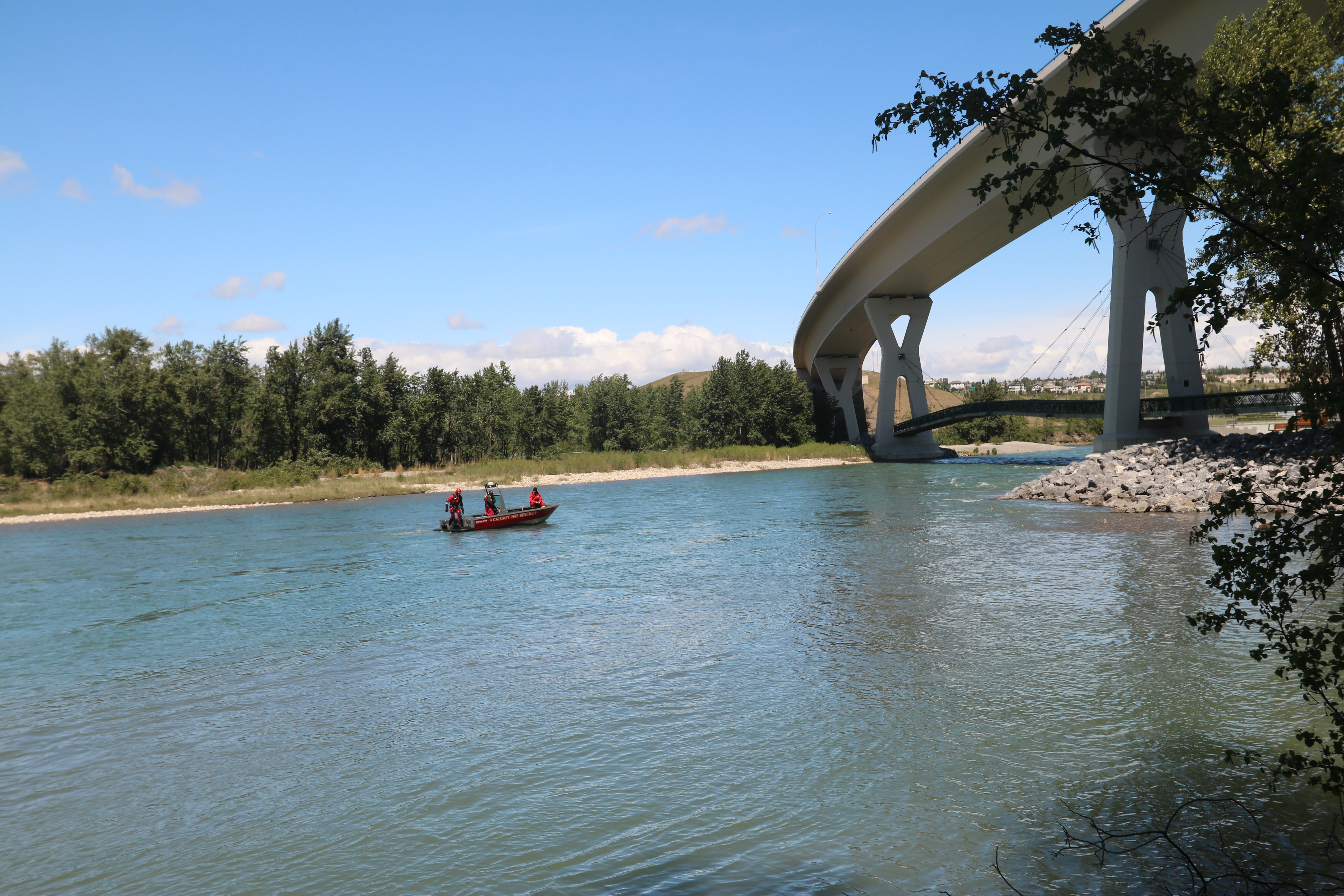 Calgary fire department water rescue practicing water rescues